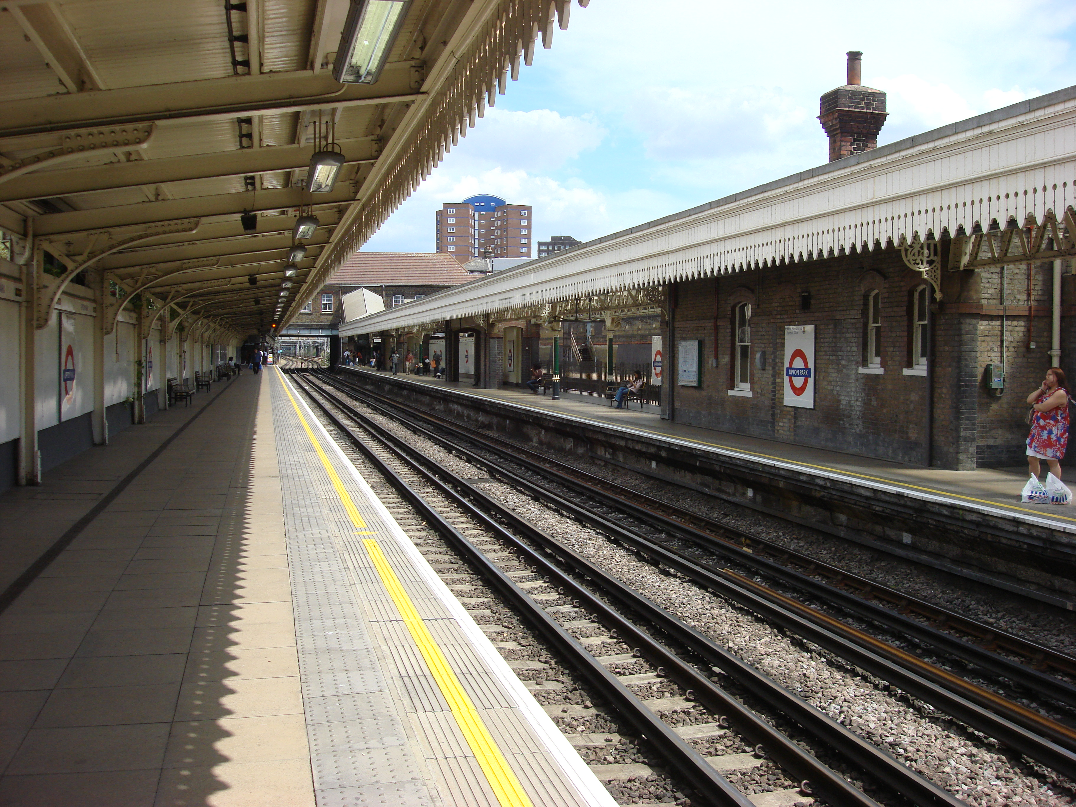 Upton Park tube station, eastbound platform